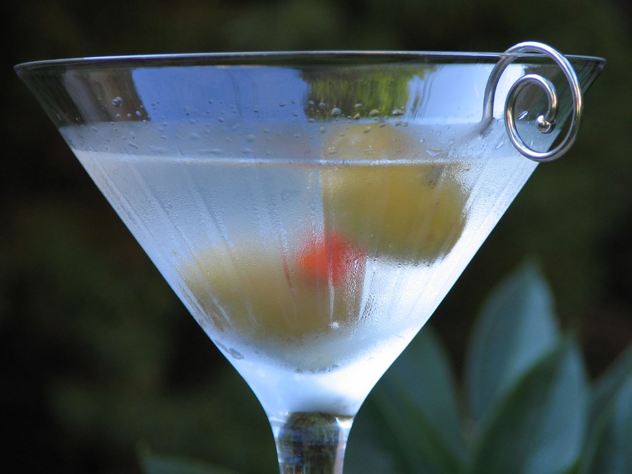 A classic martini of Tanqueray, Noilly Prat dry vermouth & two queen olives.